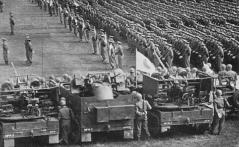 Military parade celebrating establishment of NSF(National Safety Force of Japan)